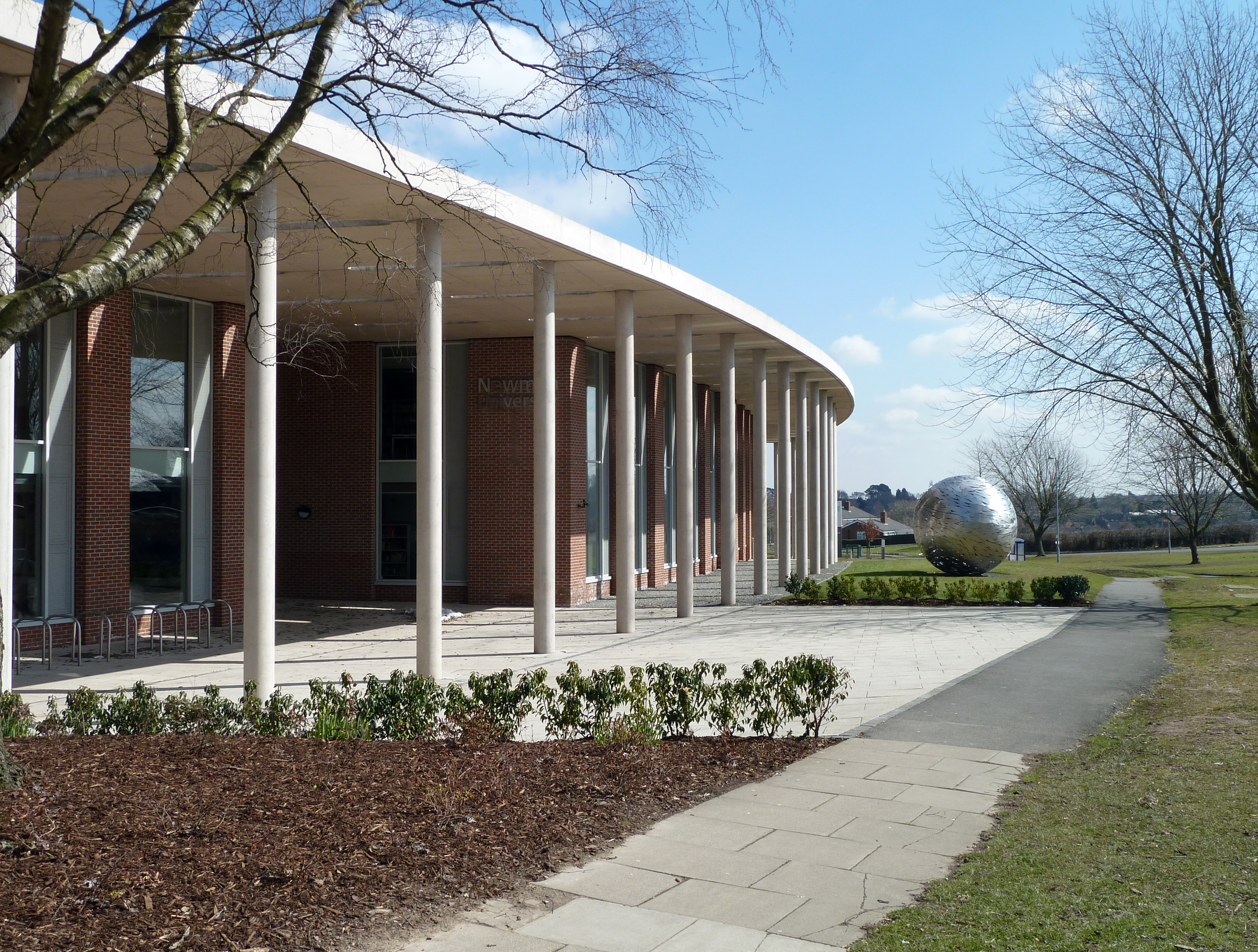 The main entrance and library of Newman University in Bartley Green, Birmingham, England